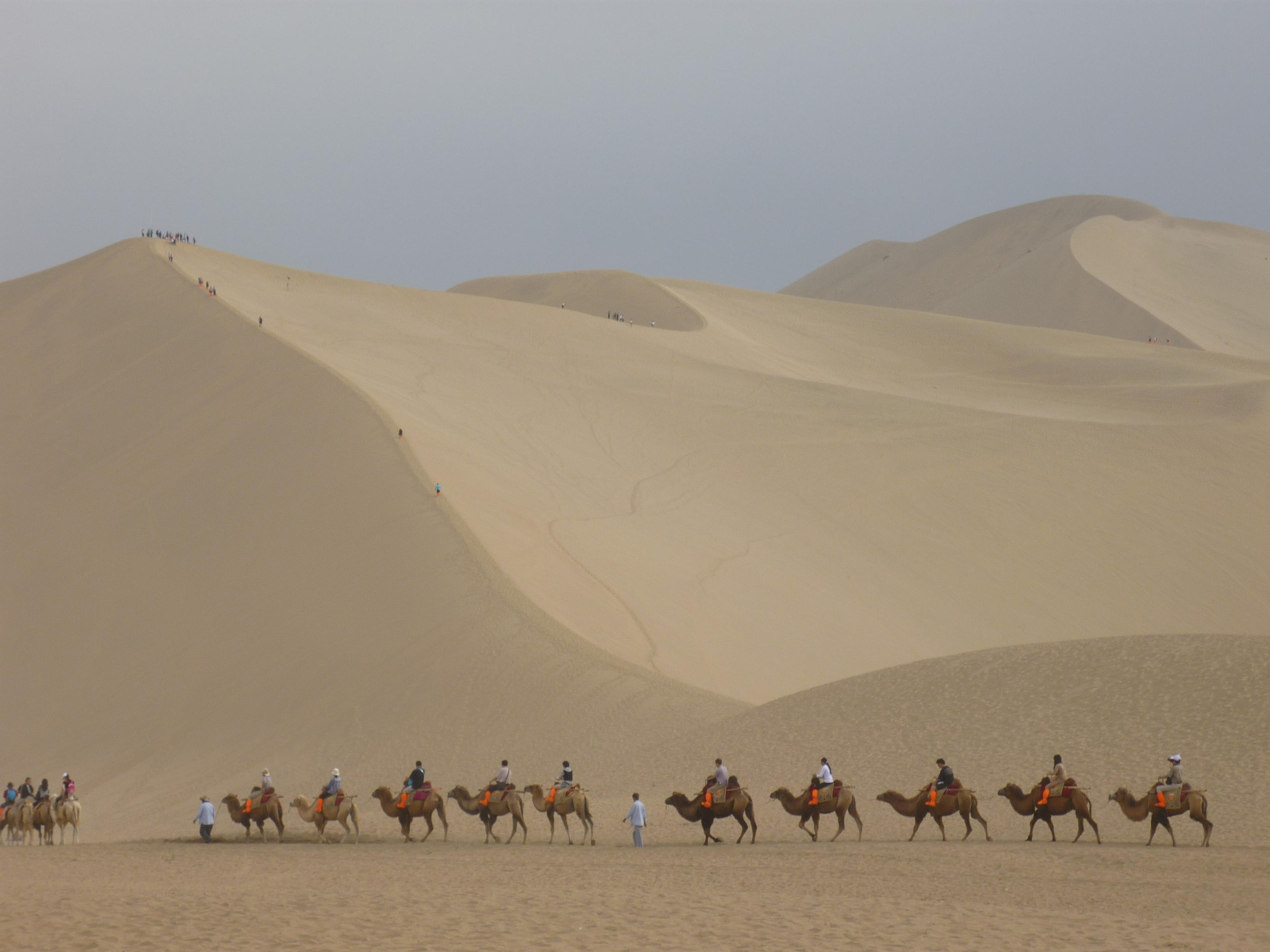 Dūnhuáng (敦煌;炖煌; in ancient times meaning 'Blazing Beacon') is a county-level city in northwestern Gansu province, Western China. It was a major stop on the ancient Silk Road.Depicting camel ride along sand dunes near Crescent Lake